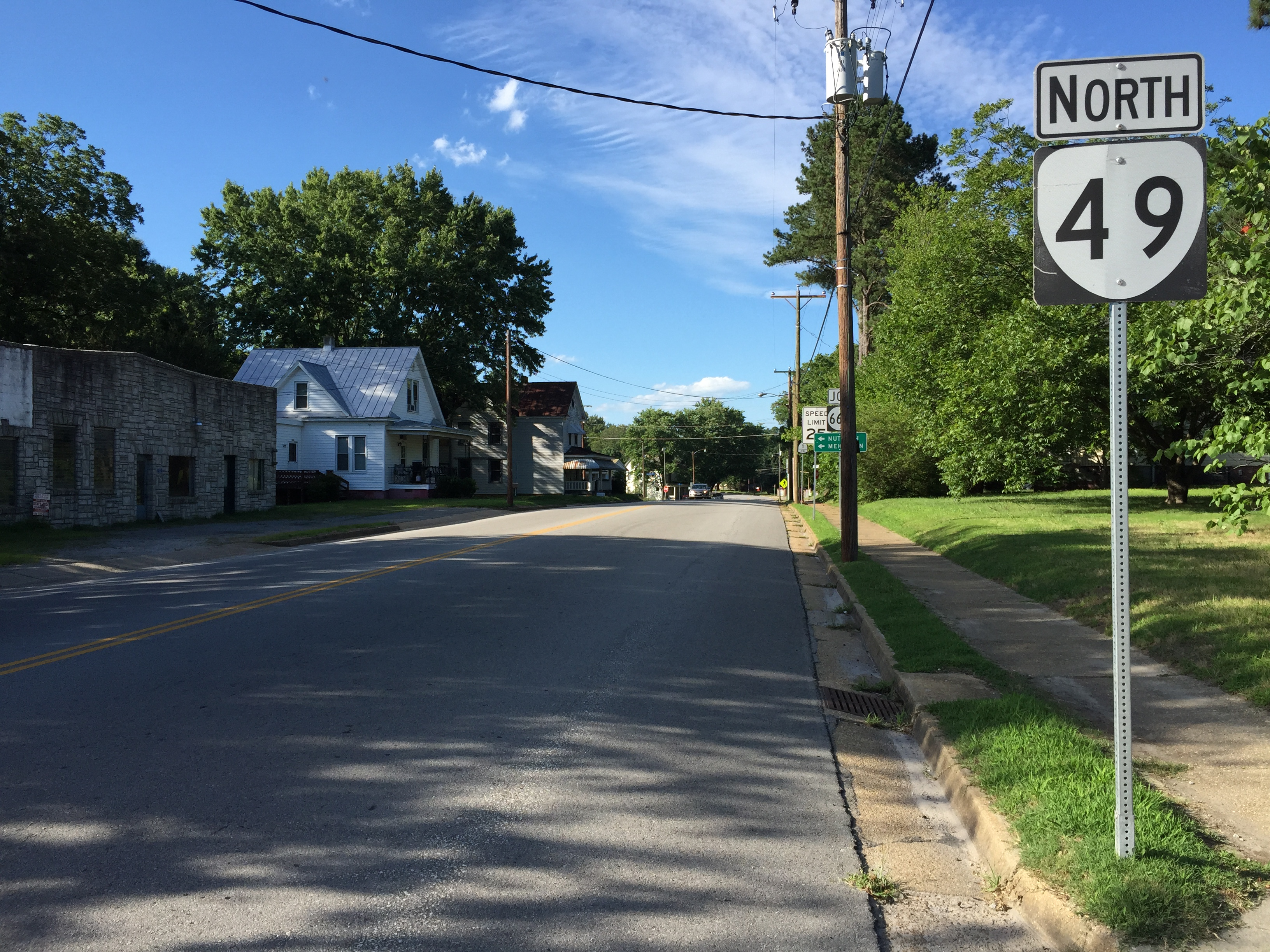 View north along Virginia State Route 49 (Nottoway Boulevard) at 9th Street in Victoria, Lunenburg County, Virginia